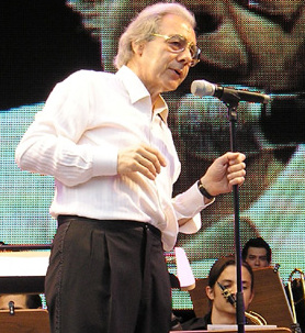 Lalo Schifrin in concert with the Big Band of the Kölner Musikhochschule on July 7th 2006 in Cologne, Germany.